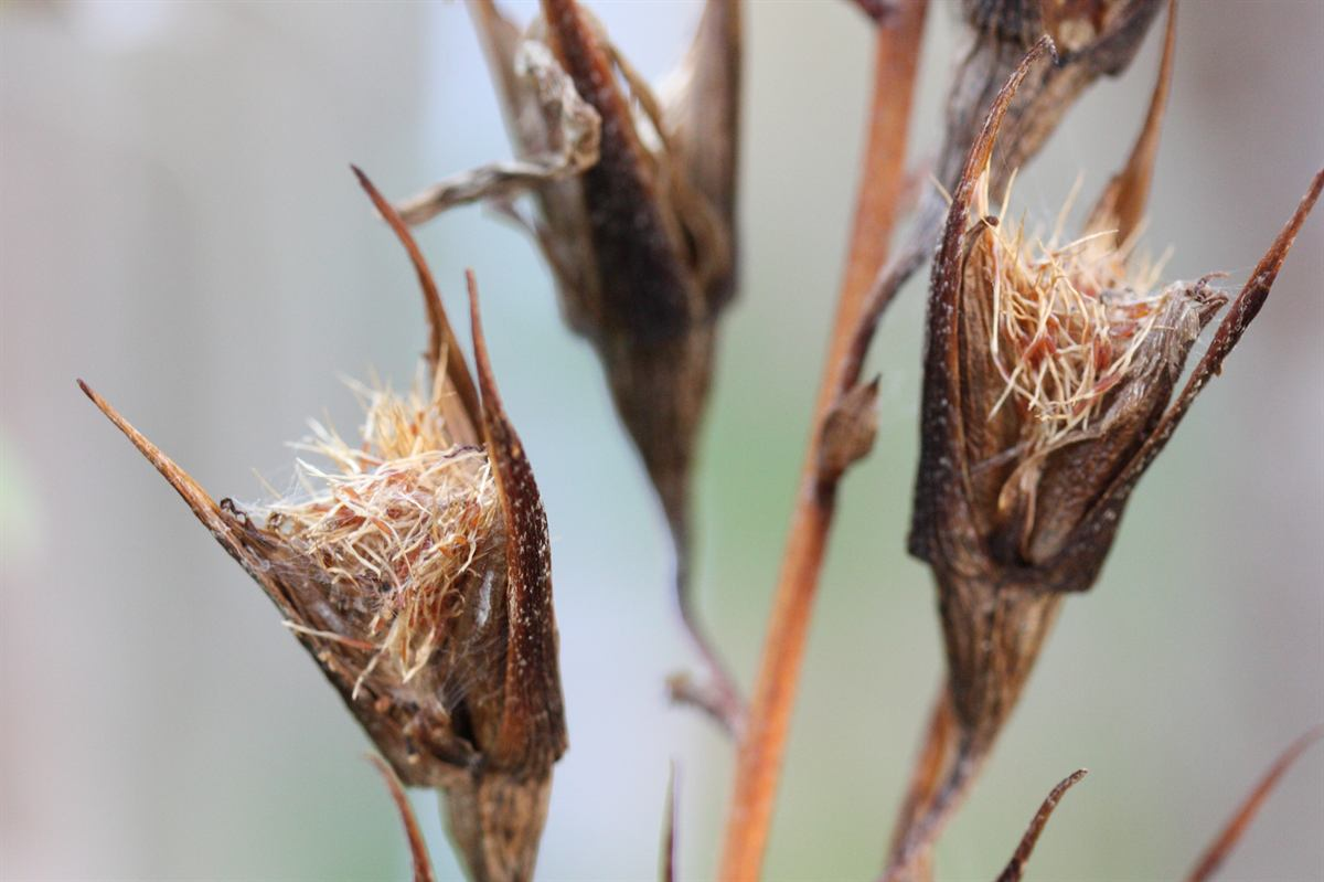 Pitcairnia spicata seeds